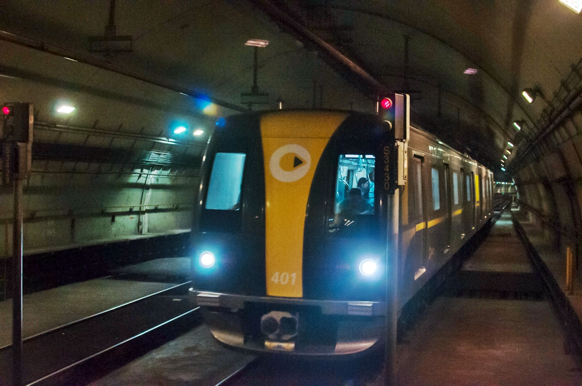 Metro de São Paulo